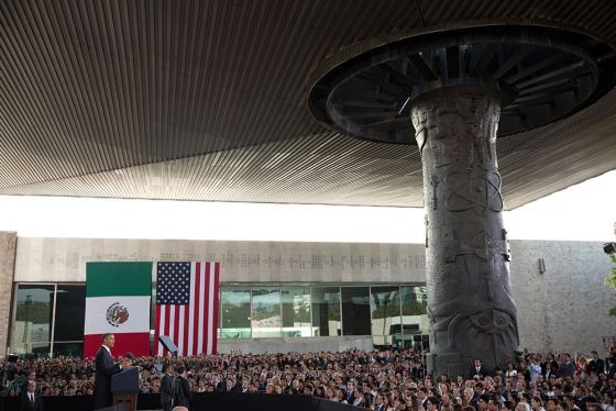 United States President Barack Obama speaks at the Anthropology Museum in Mexico City on 3 May 2013.